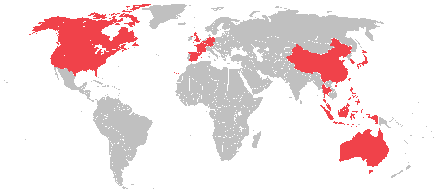 UNIQLO's map of stores around the globe in 2018 according Fast Retailing